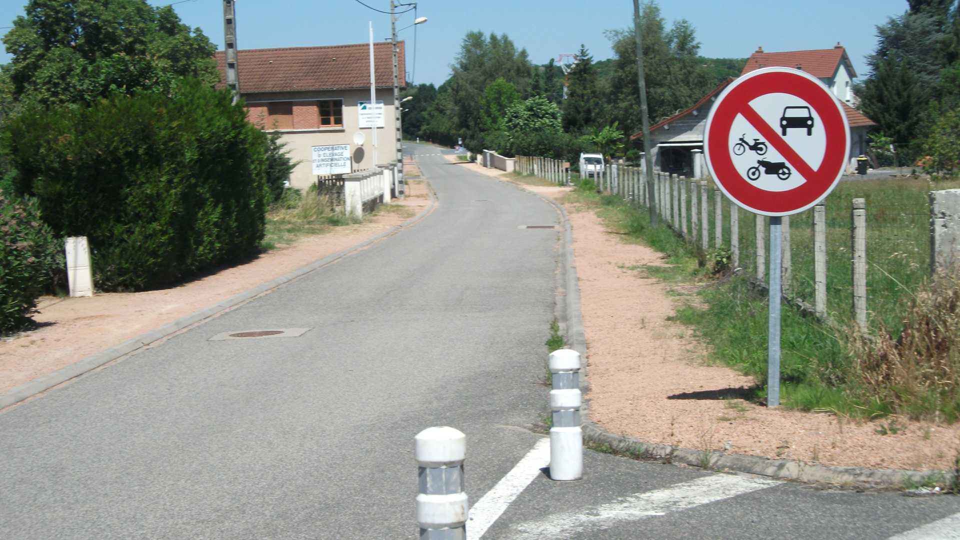 A street in Creuzier-le-Neuf (rue de la Mairie)